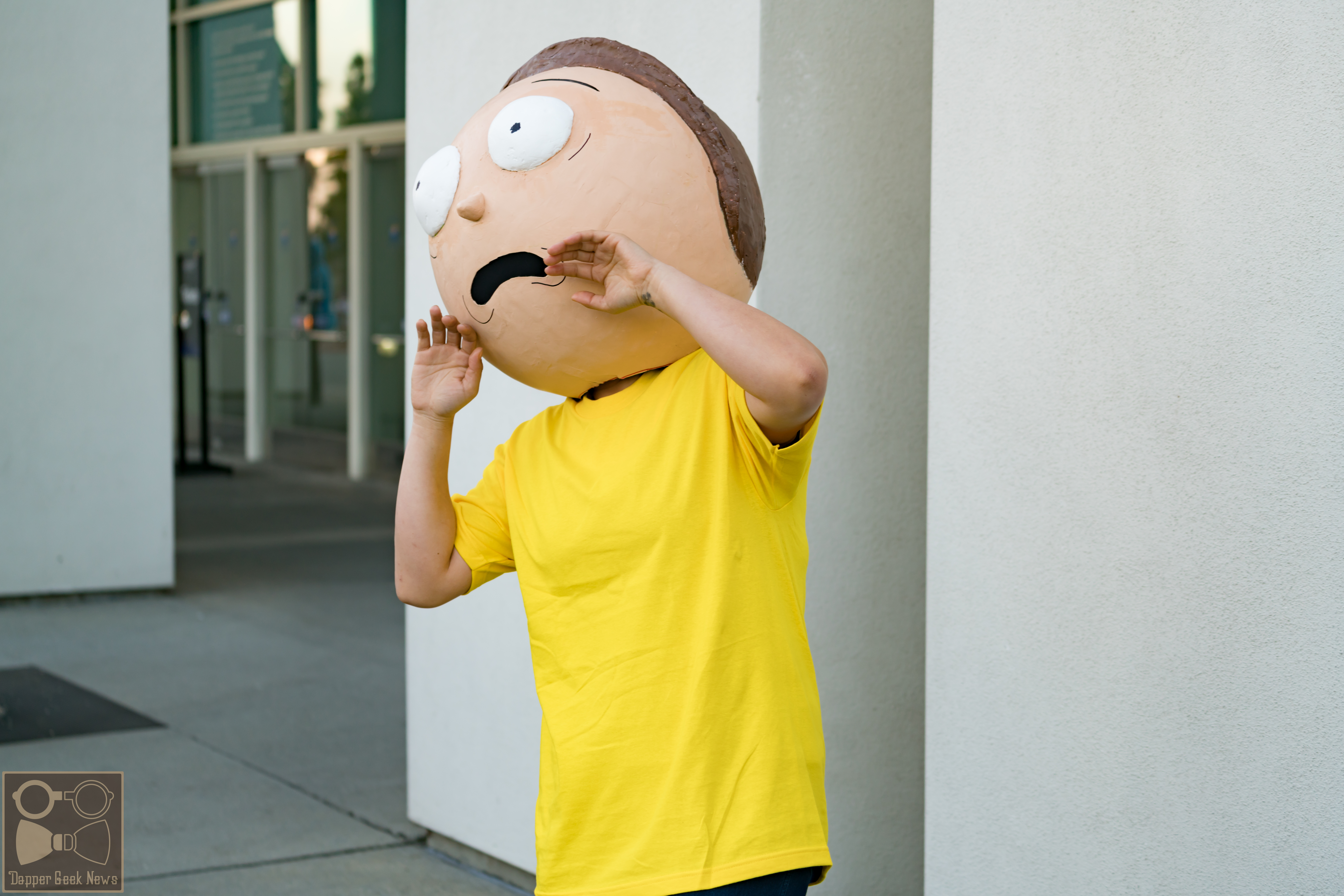 Morty